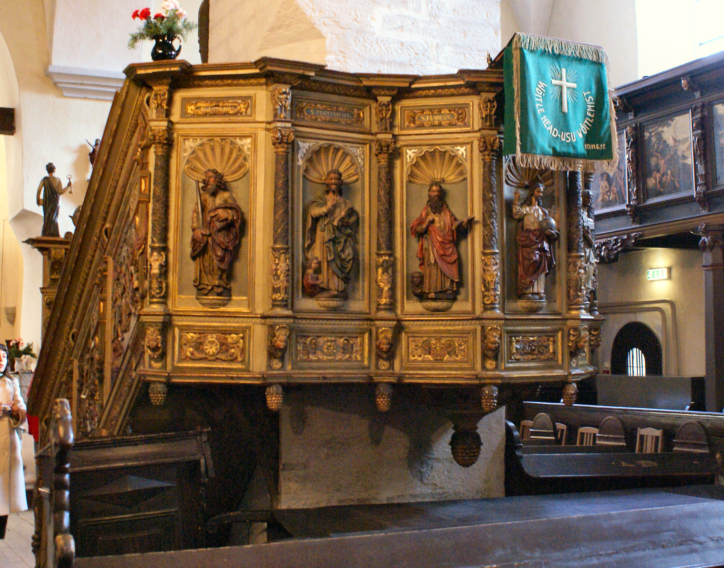 Church of Holy Spirit in Tallinn